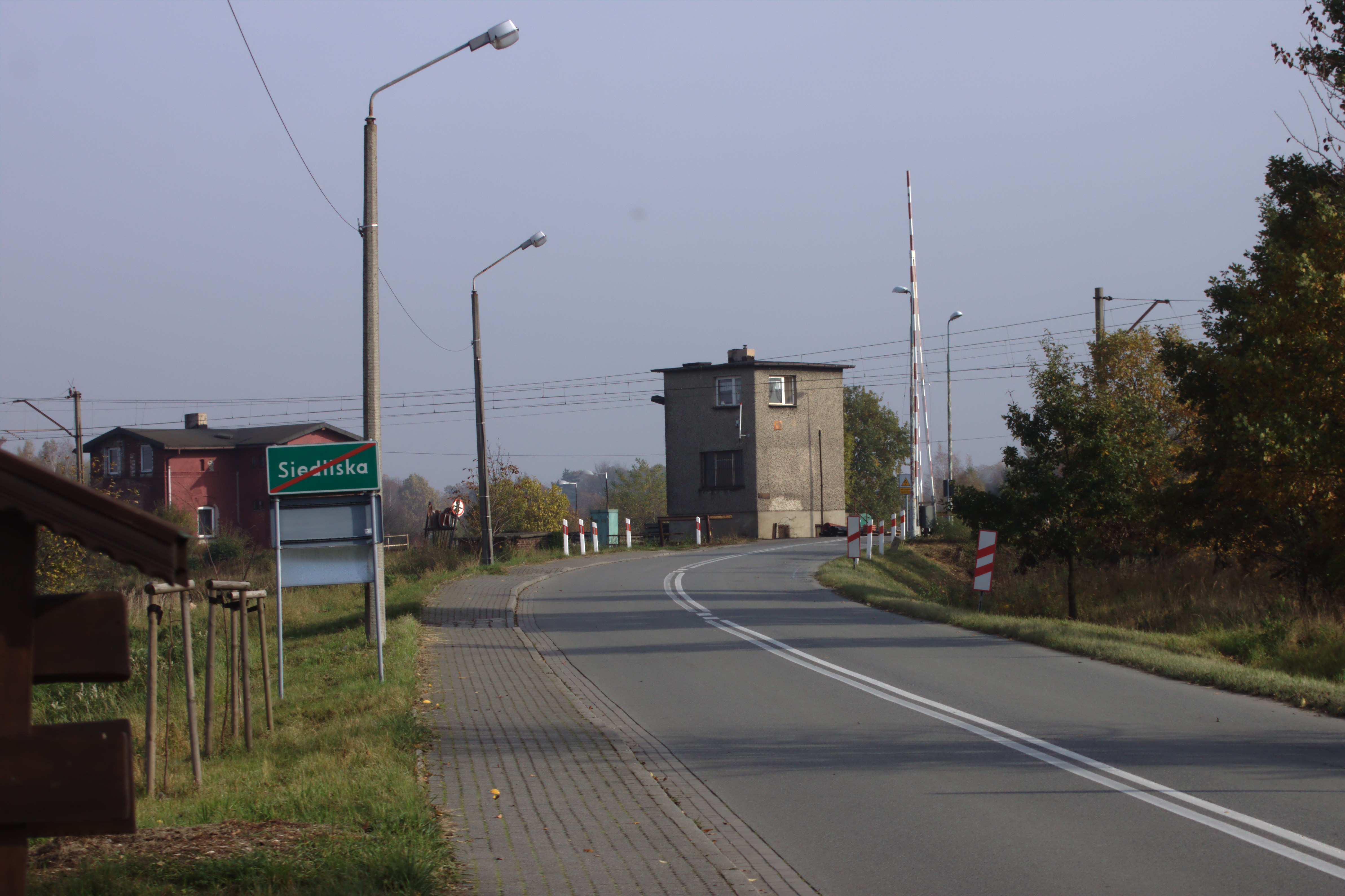 Rail/Road crossing in the village of Siedliska, Poland